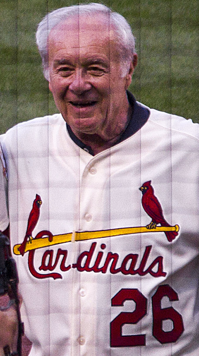 5-17-17 St.Louis Cardinals 1967 World Series Reunion.